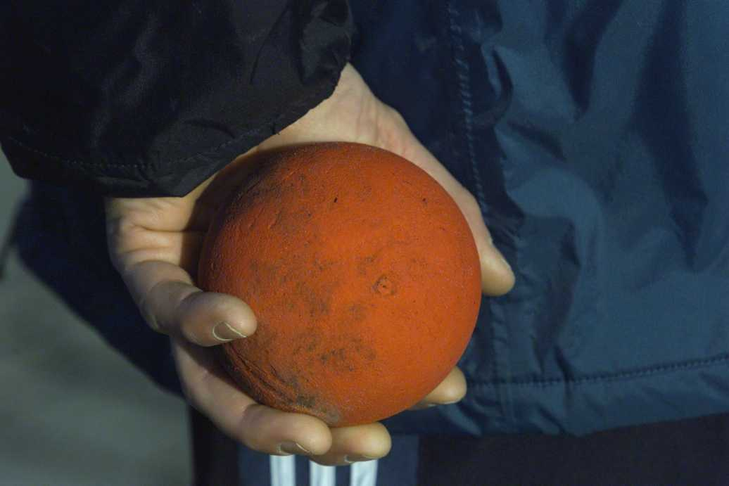 German street bowl